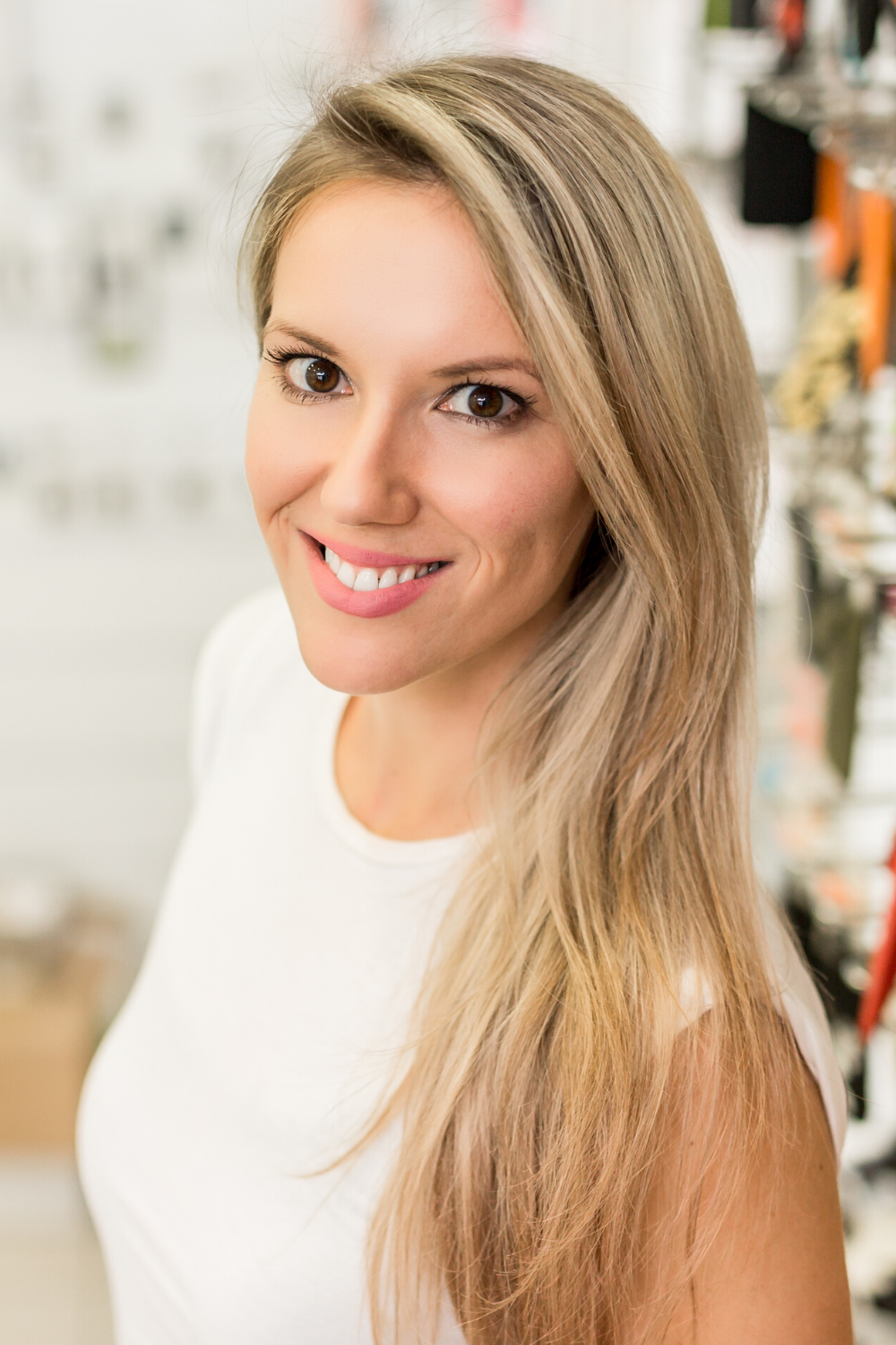 Czech psychologist Romana Mazalová